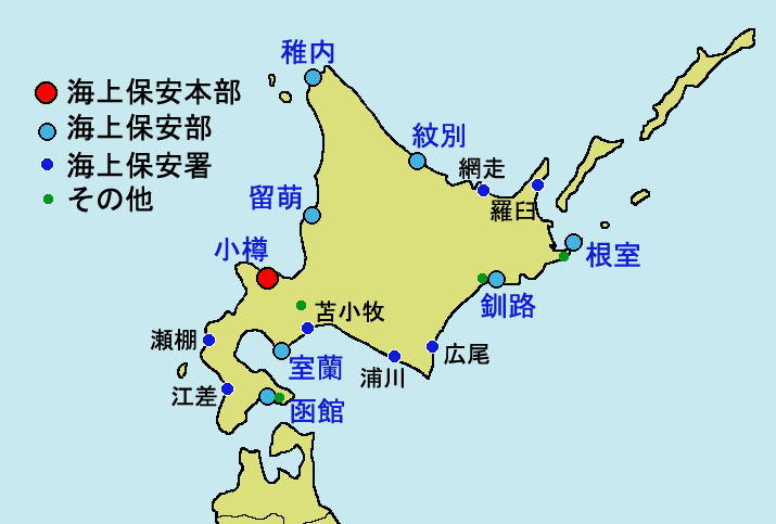 Japan Coast Guard 1st region